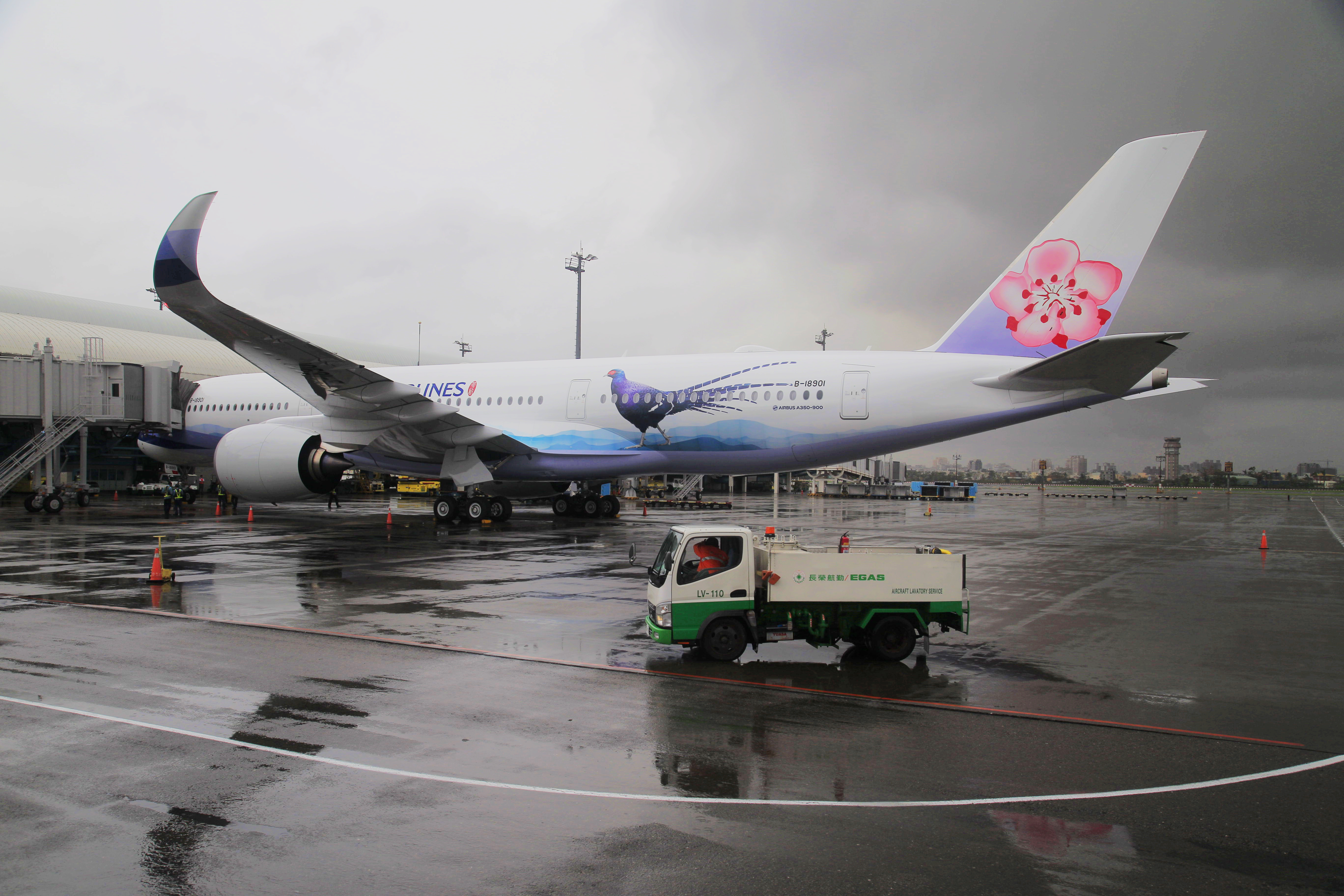 China Airlines Airbus A350-941